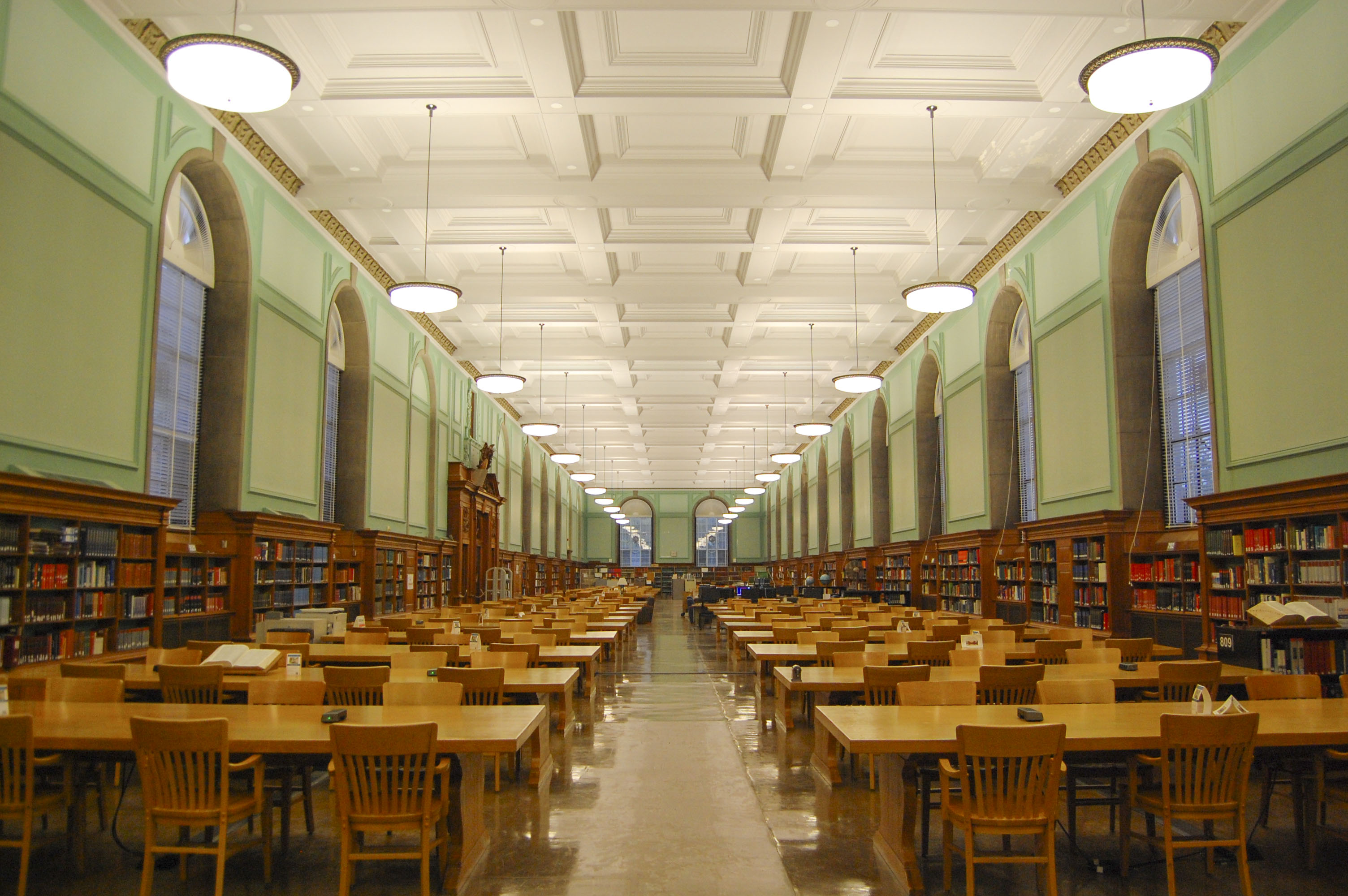 University of Illinois at Urbana-Champaign Main Library Reading Room